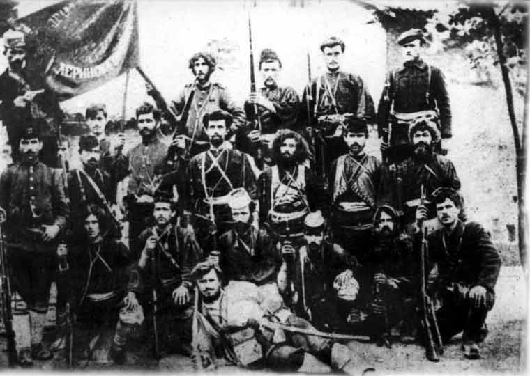 United Lerin (Florina) chetas in the Young Turk's revolution 1908. It's Leaders is Dzole Gergev Stoychev